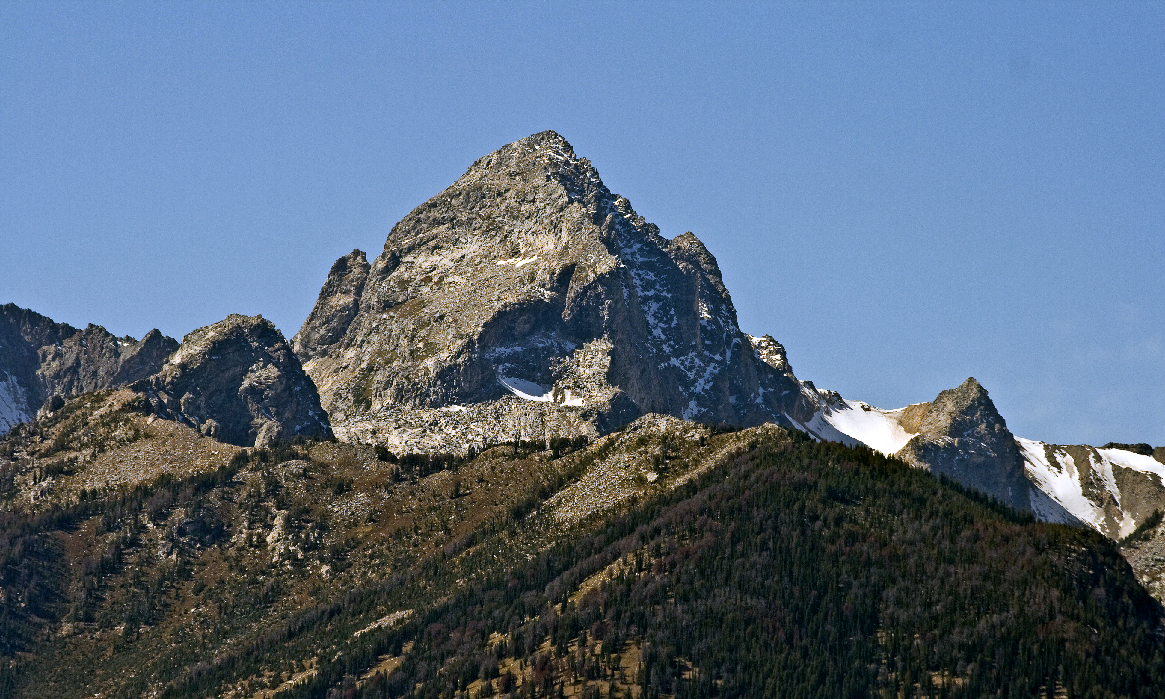 Buck Mountain in Grand Teton National Park, Wyoming, USA. Image taken from the Teton Point turnout.